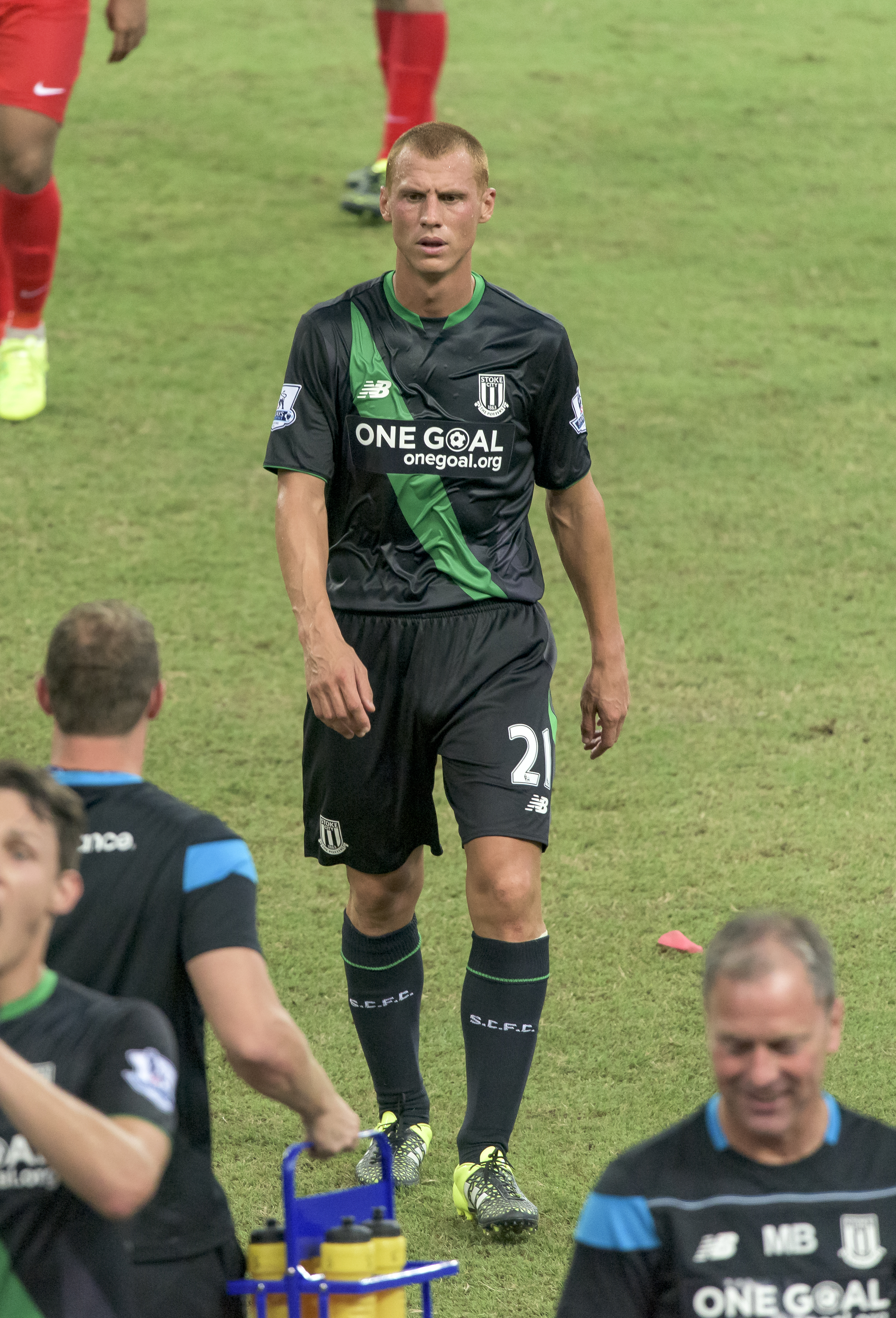 steve sidwell stoke city fc 2015 barclays asia trophy singapore